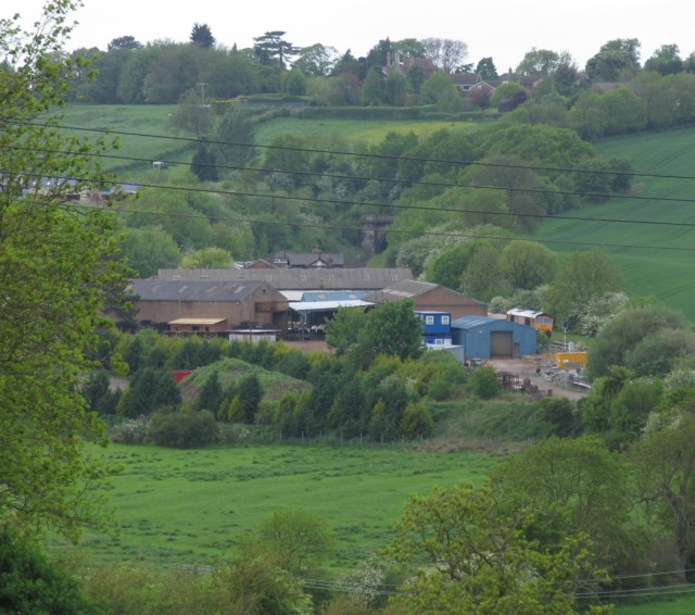 Industry at Manton Junction. The industrial buildings are between the railway lines to Stamford and Corby and adjacent to Manton Junction. The south portal of Manton Tunnel in the next square is just visible. Manton is on the hill above the tunnel.